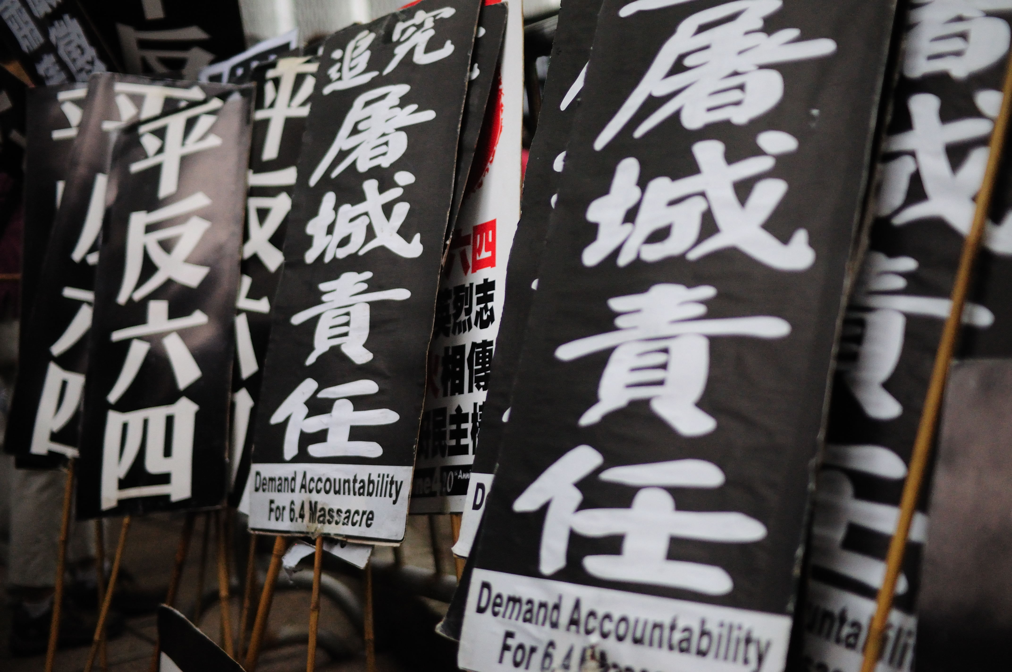 to the killers in Beijing in 1989/6/4 2010.5.30 平反六四大遊行